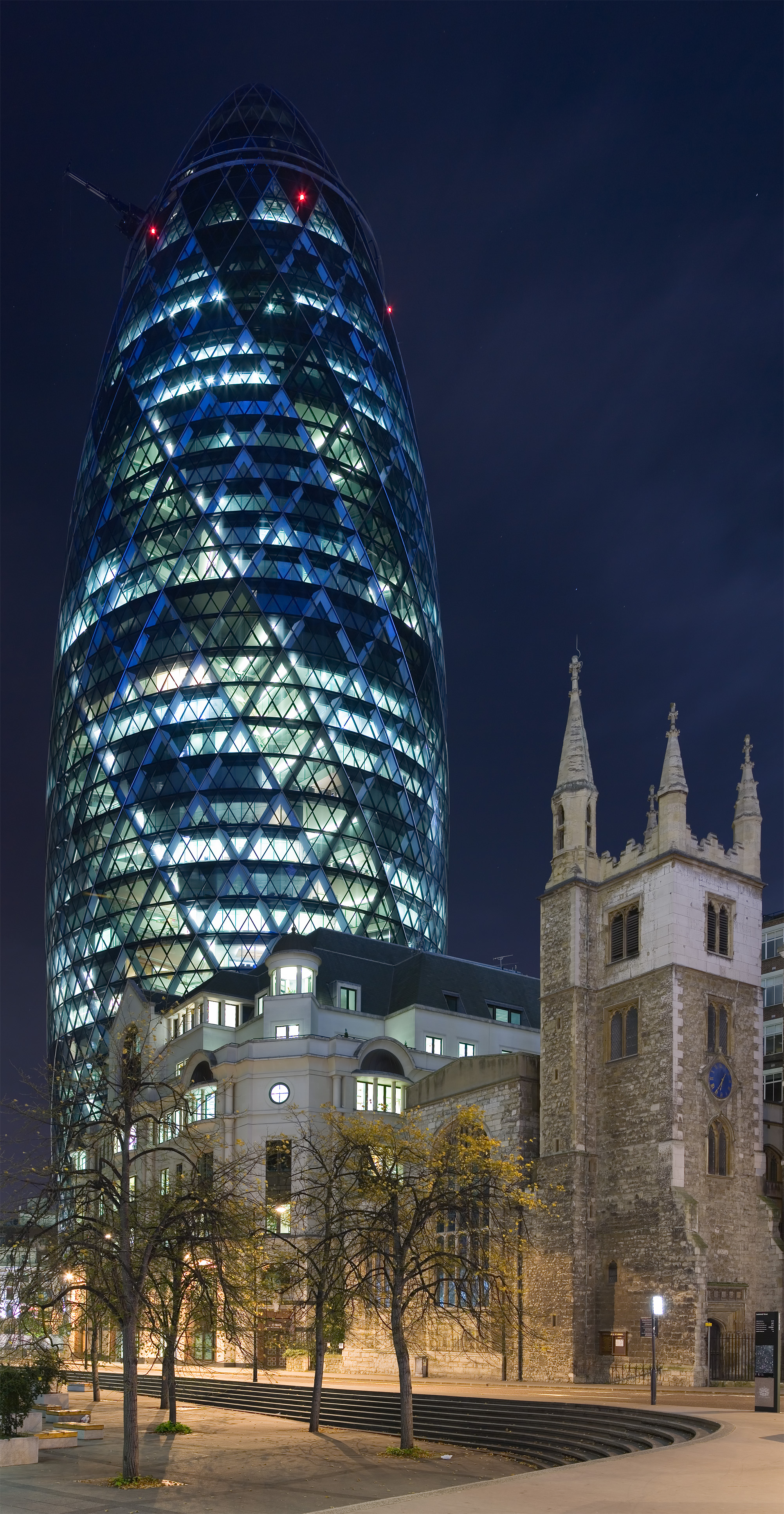 30 St Mary Axe, otherwise known as The Gherkin or the Swiss Re building. Taken from Leadenhall St by myself with a Canon 5D and 24-105mm f/4L IS lens. This is a 4 segment vertical panorama.